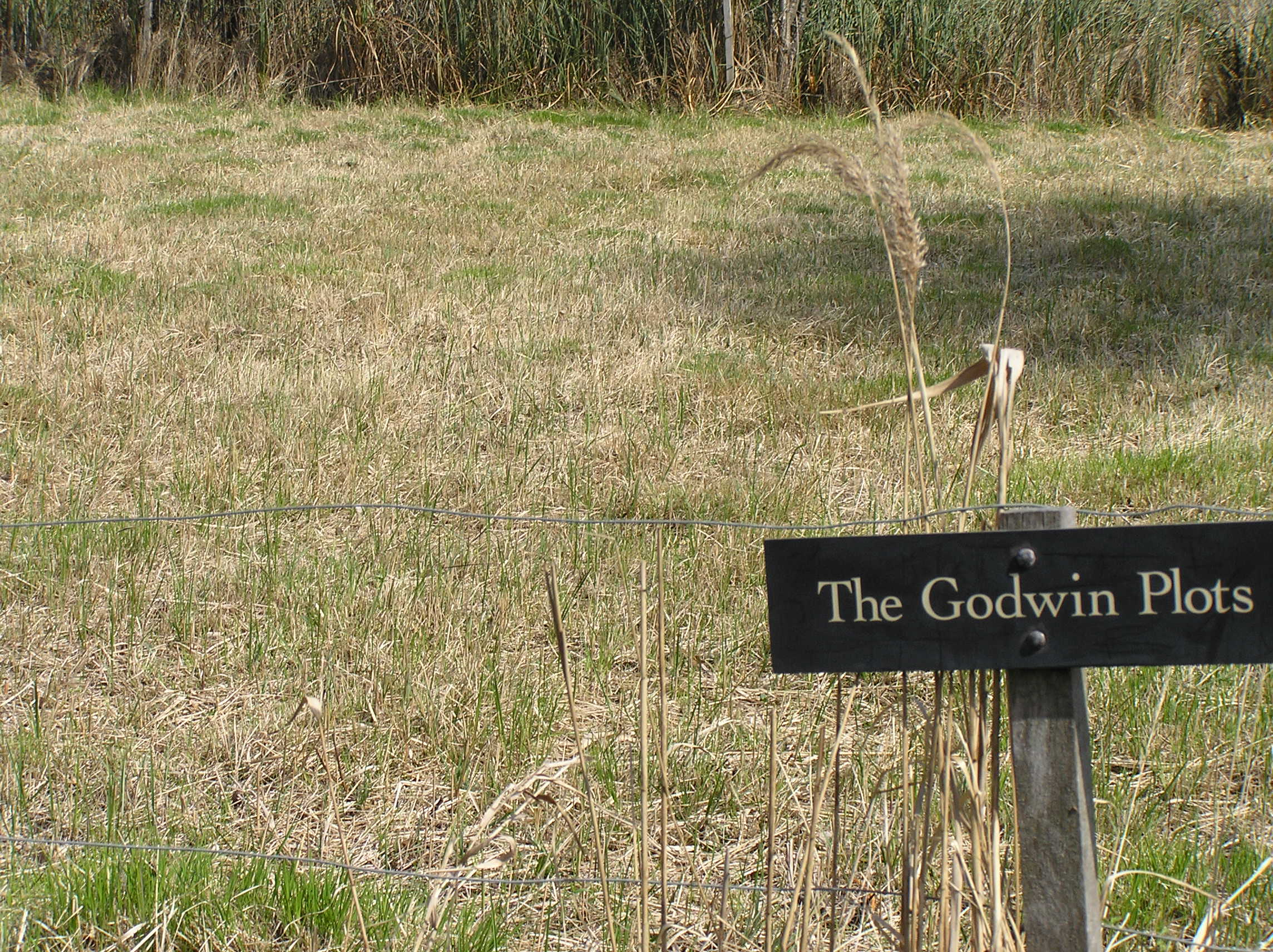 This photo shows the Godwin plot which is cut annually. I, NH Savage, took this photo and release under the GFDL license.